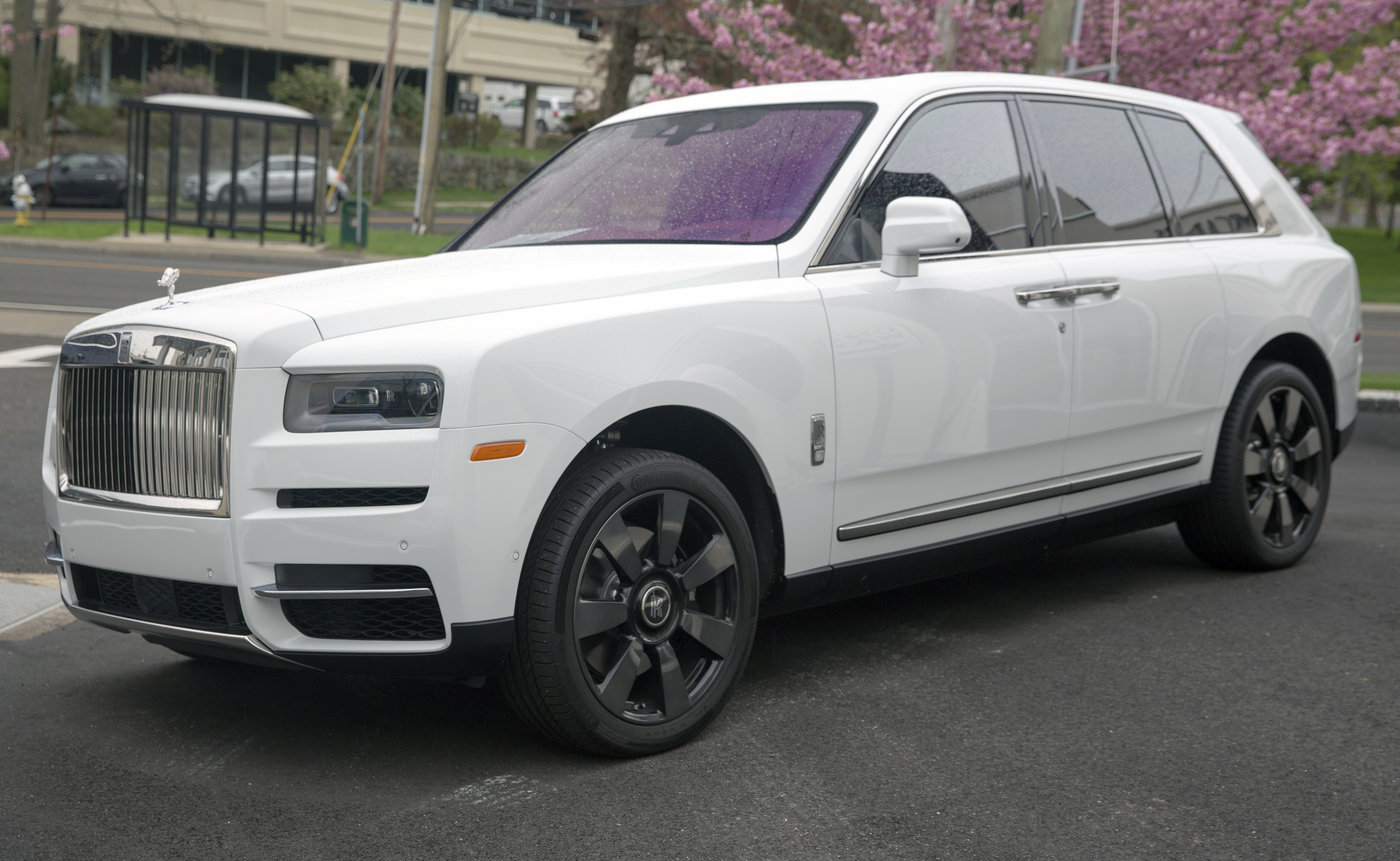 A 2019 Rolls-Royce Cullinan in Artic (spelling as per seller's website) White with Mugello Red interior, blocking out what little sun there was this day.